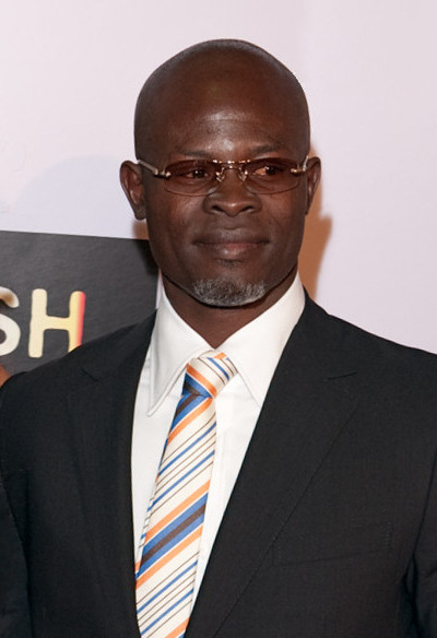 Beninese actor Djimon Hounsou arrive at the premiere of Push, Mann Theater, Westwood.